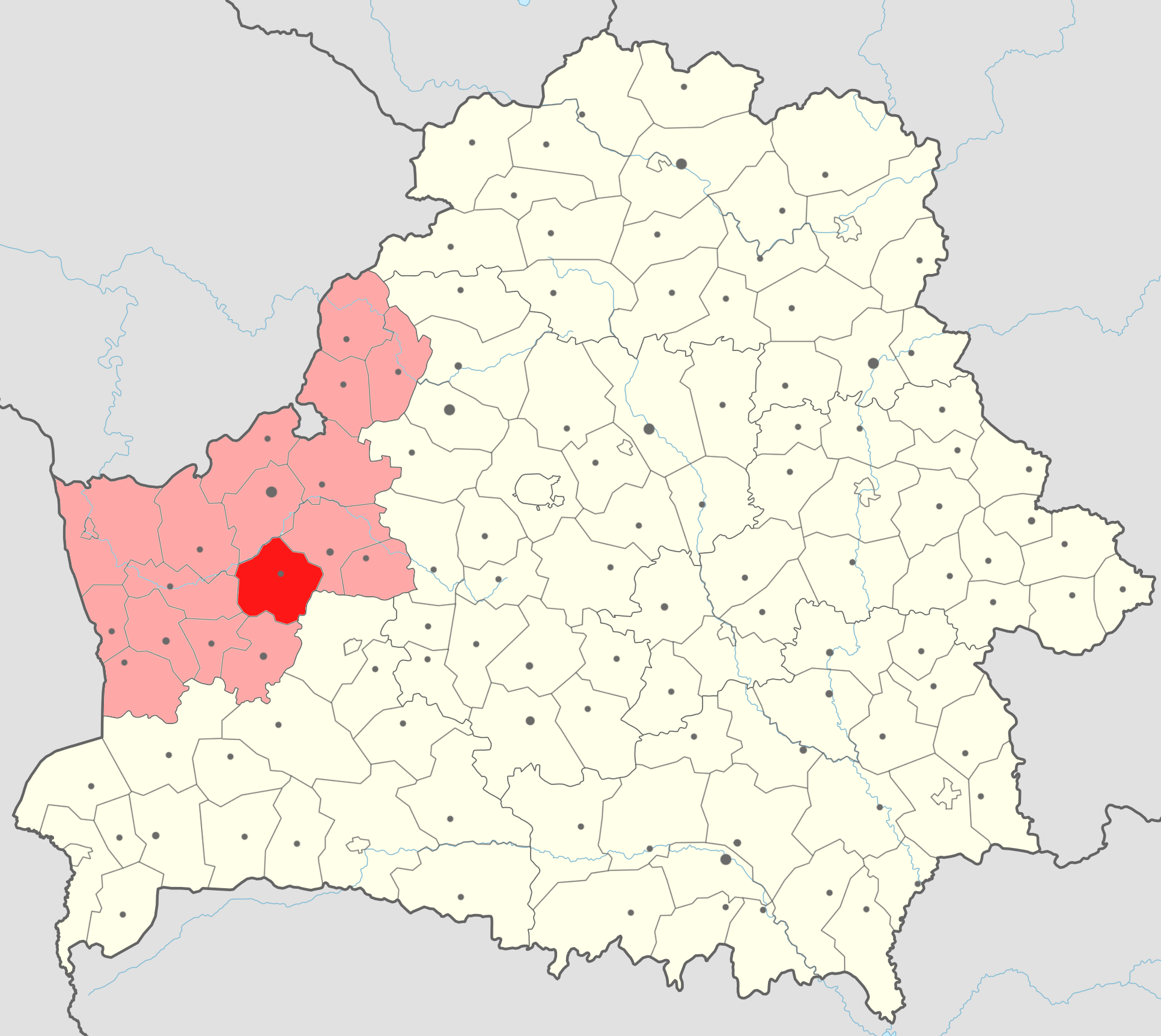 Map of Dziatlaŭski rayon (in red) with Hrodna voblast' (in light red) on the map of Belarus.